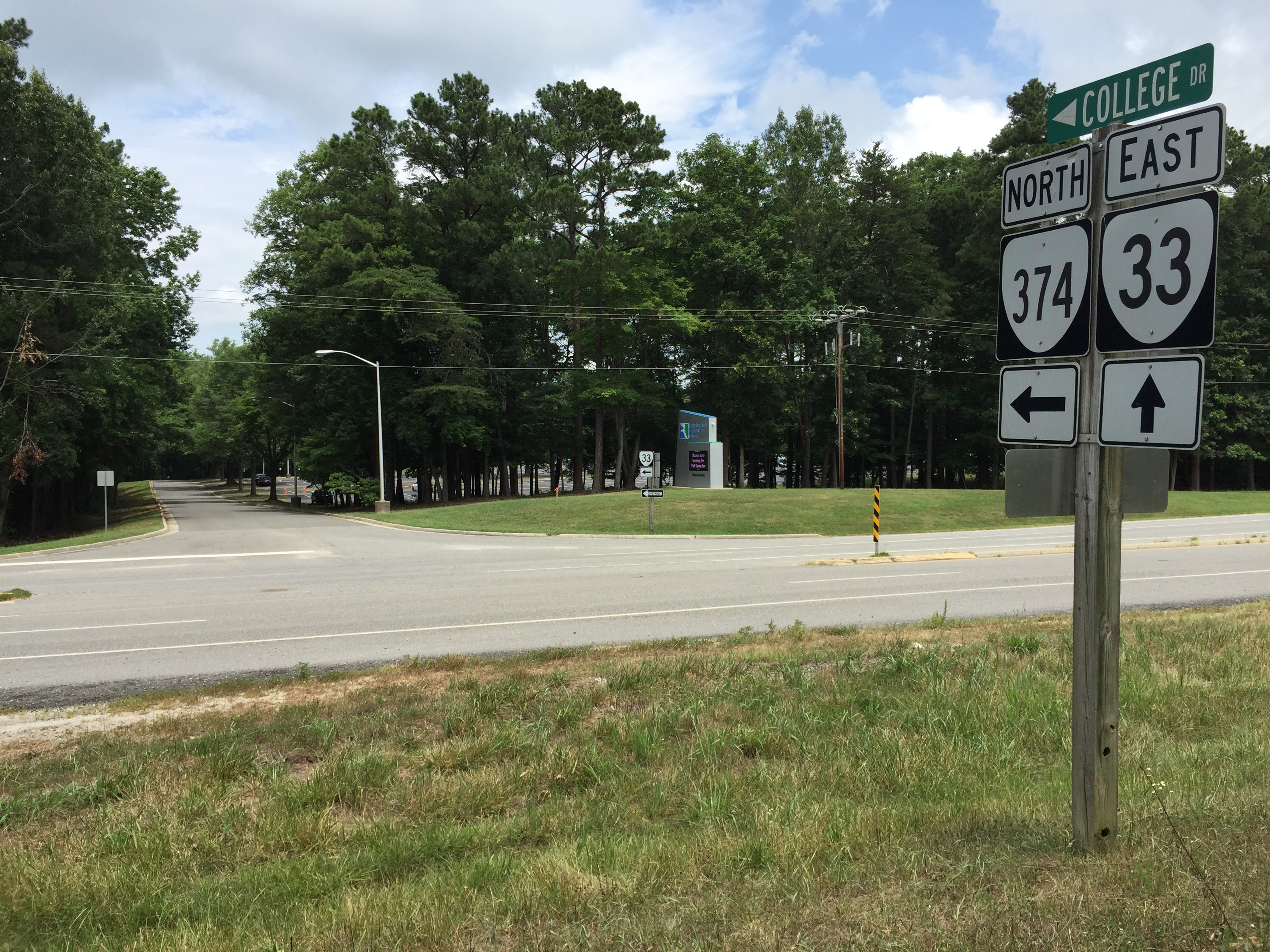 View north along Virginia State Route 374 (College Drive) at Virginia State Route 33 (Lewis B Puller Highway) at the Rappahannock Community College in Glenns, Gloucester County, Virginia